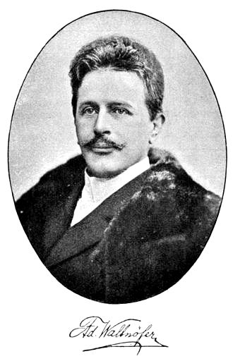 Adolf Wallnöfer (1854-1946), Austrian tenor und composer